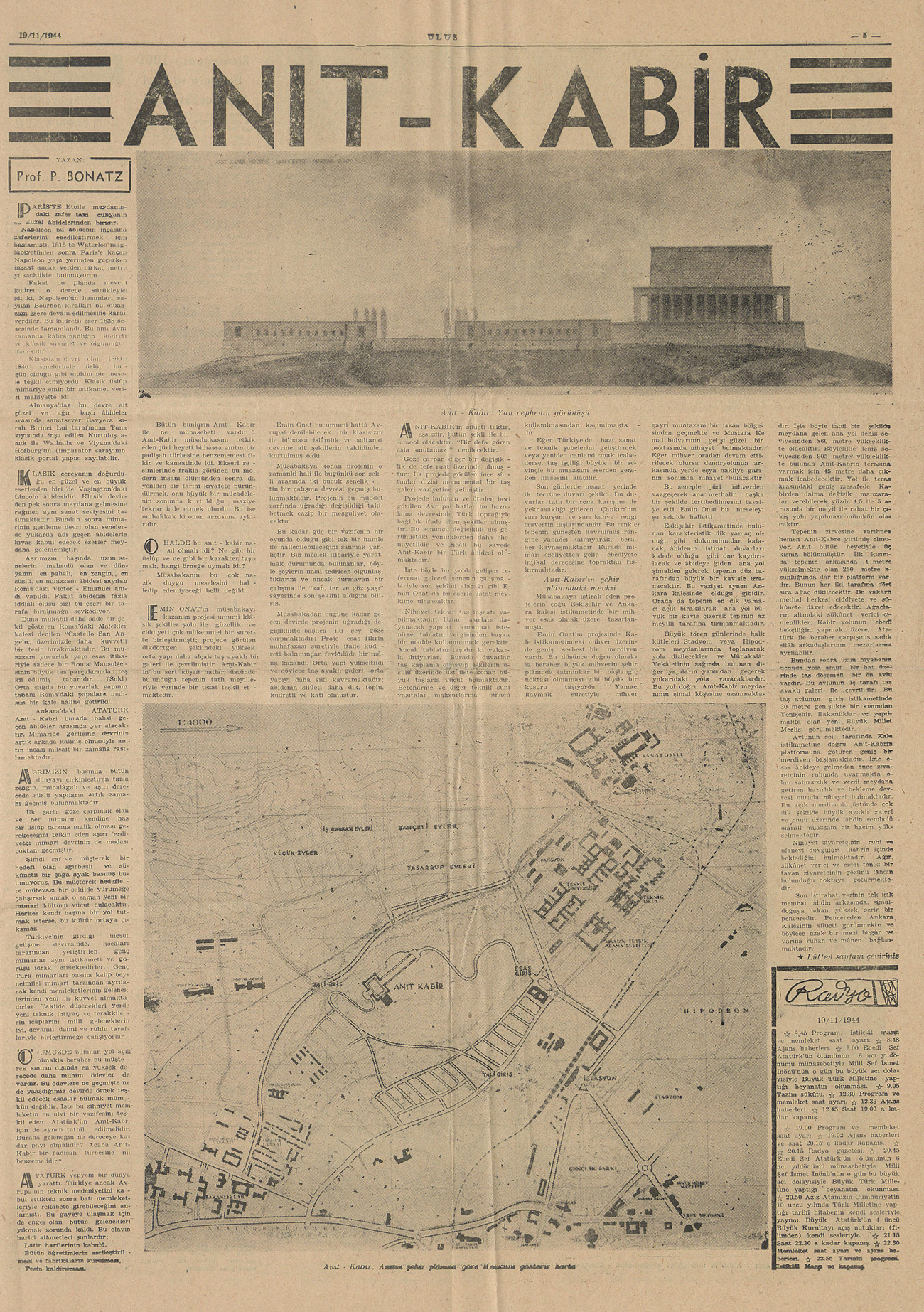 Ulus Newspaper's dedicated page about Anıtkabir project, founder and first President of Turkey Mustafa Kemal Atatürk's burial place.